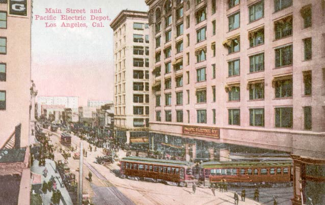 Main Street and Pacific Electric Depot L.A. 1910